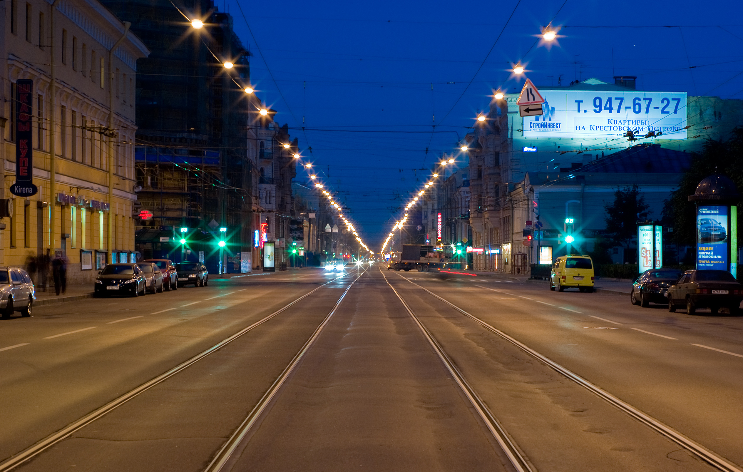 Liteyny Prospekt at night